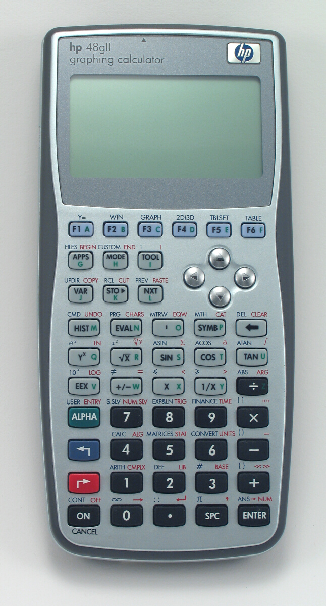 Hp48gii